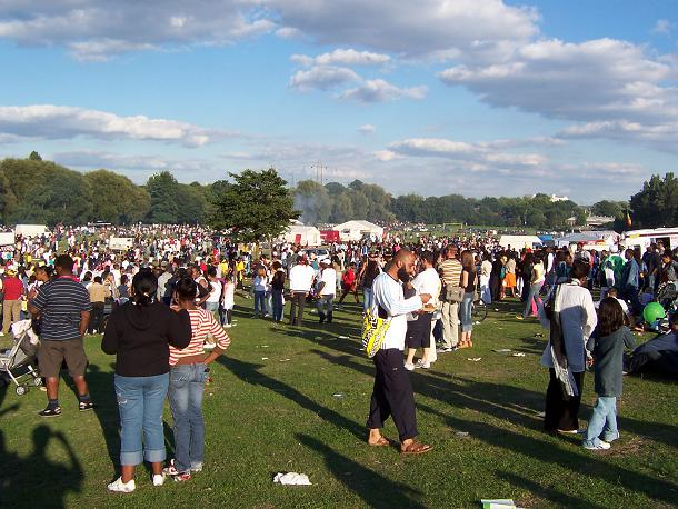 After the Carnival. ...The party continued in Perry Park long into the evening. This view is looking SE towards the Aldridge Road entrance.